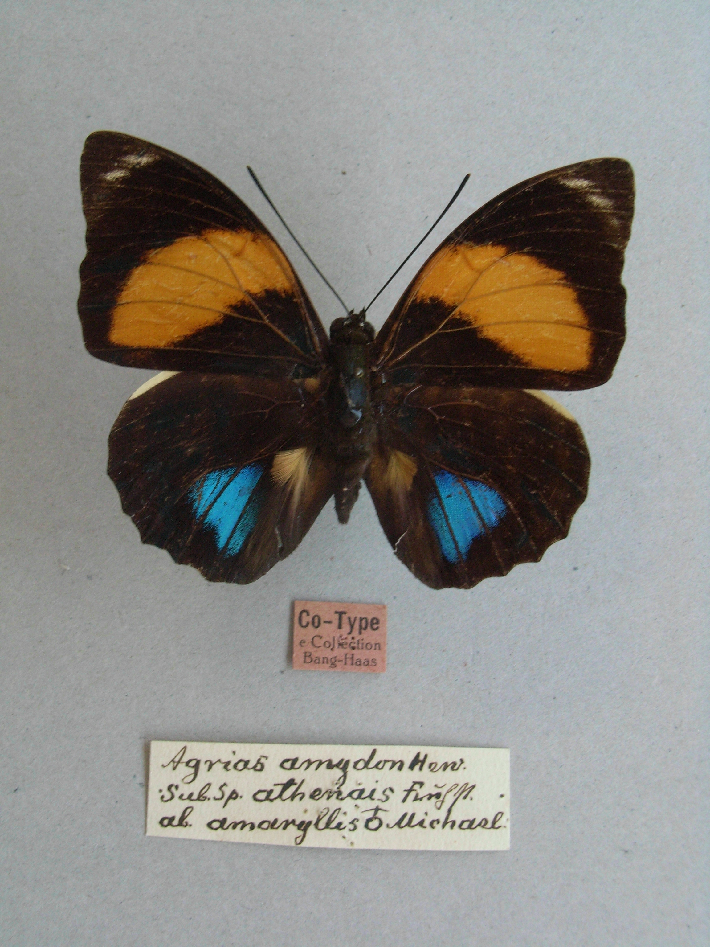 Type of Agrias amydon athenais ab. amaryllis